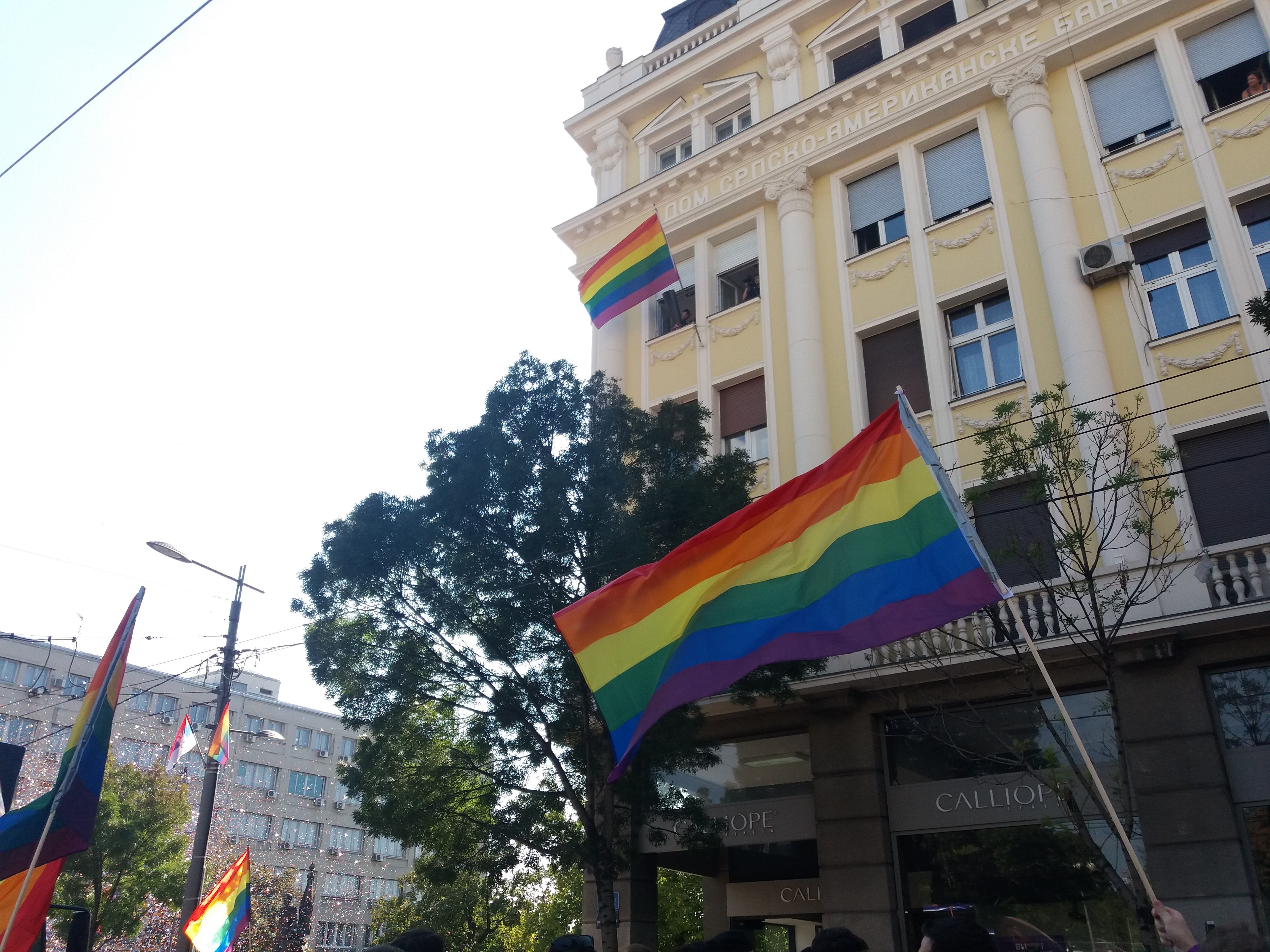 Belgrade Pride 2018 took place on 16th September 2018.